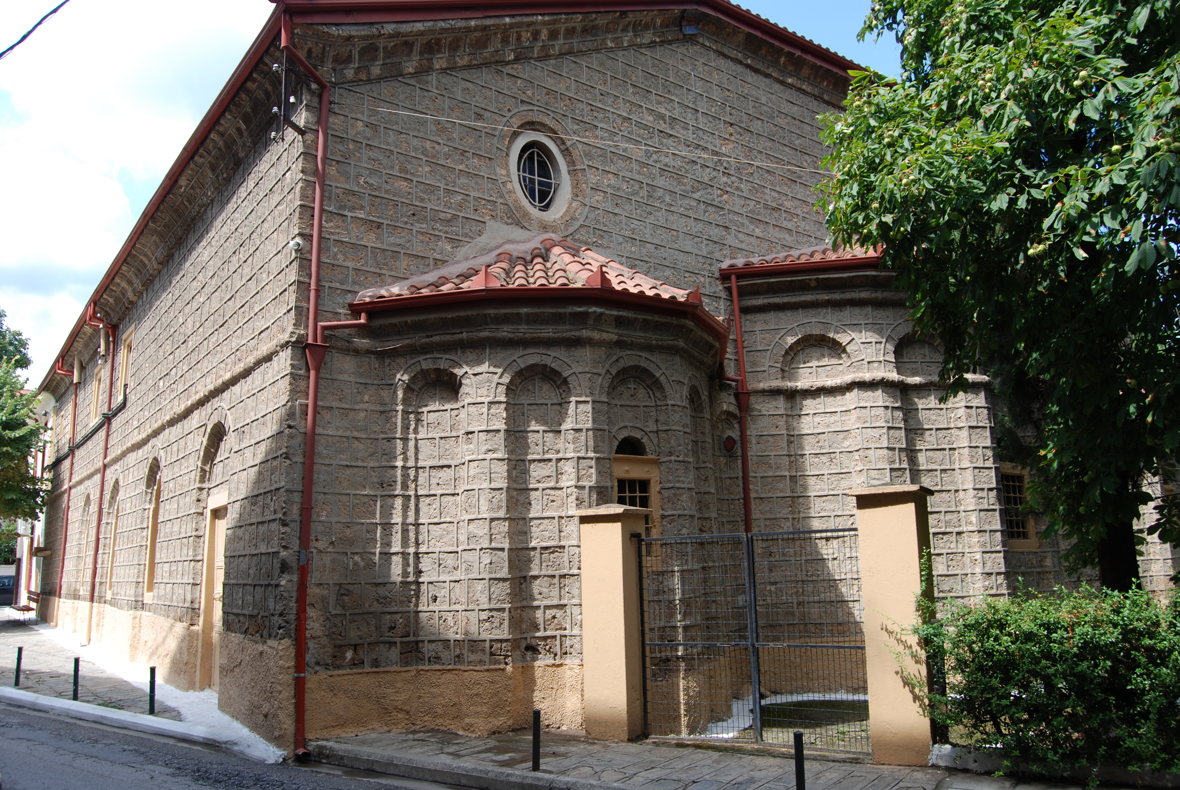 Dormition of Mary Church, Negush